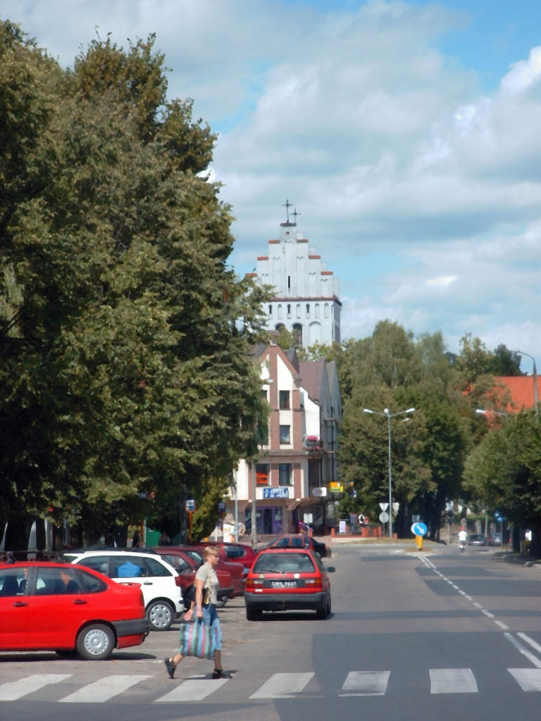 Town_of_Goldap_in_Poland